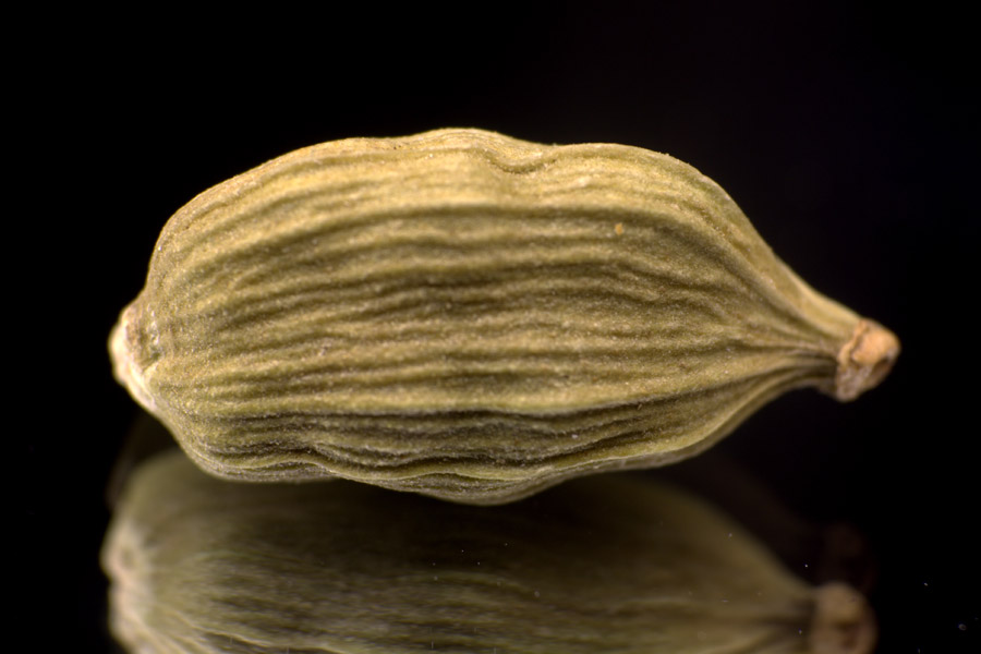 elachi macro